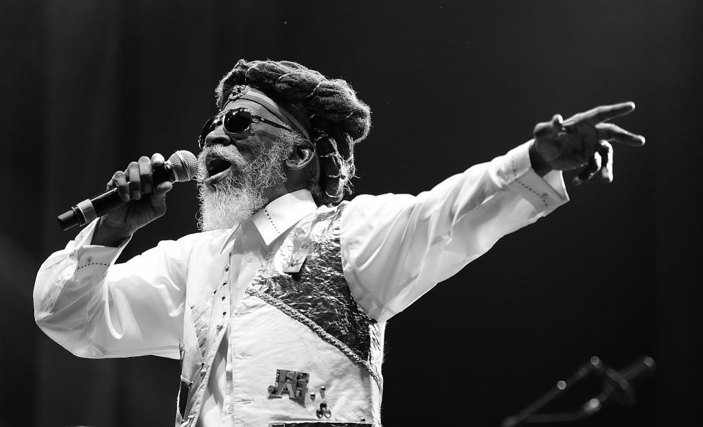 Bunny Wailer in concert at Reggae Geel, Belgium. August 1, 2014. Picture by Peter Verwimp.